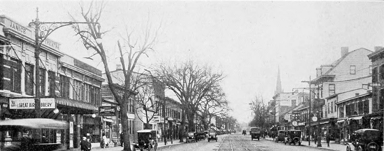 Main Street, Flushing, Queens, New York City.